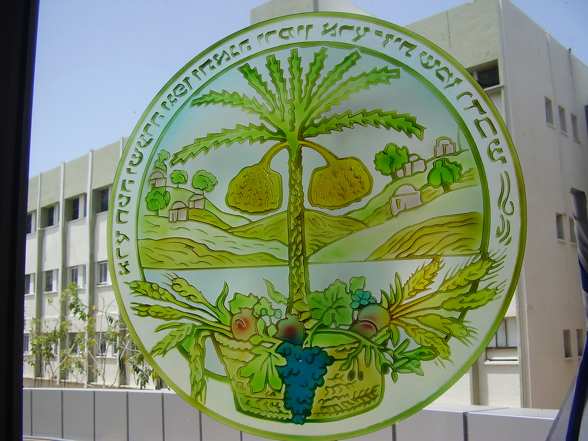 logo of vulcani institute in beit-dagan